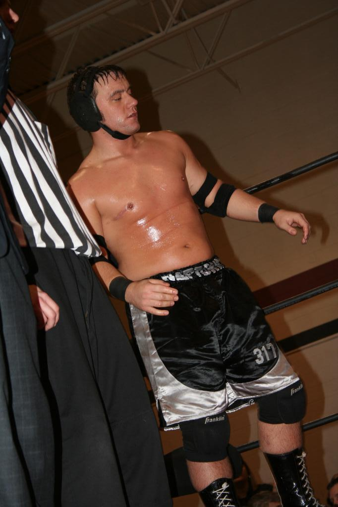 Drake Younger at IWA-MS 500th show